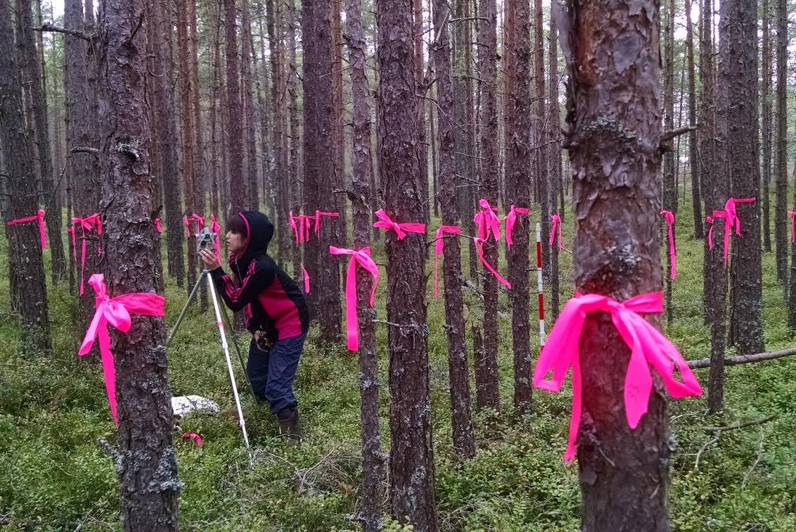 The picture was done in Luidja, Hiiumaa Island, Estonia. Japanese research group from Chiba University (Akira Kato) together with researchers from Institute of Ecology at Tallinn University obtained 3D information of forest structure using a laser surveyor and drones